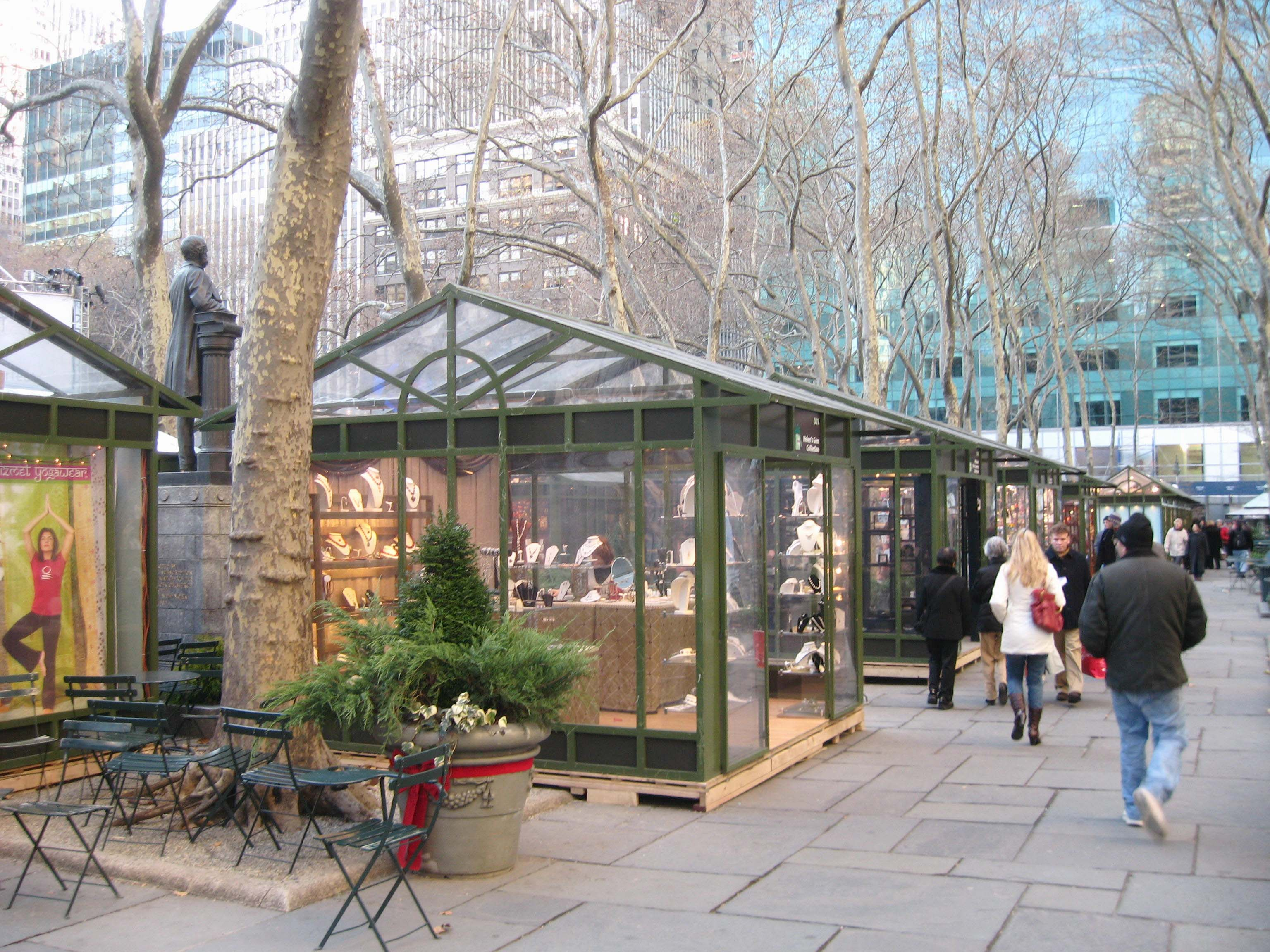 Looking west along seasonal shopping mall inside Bryant Park on a cloudy afternoon.